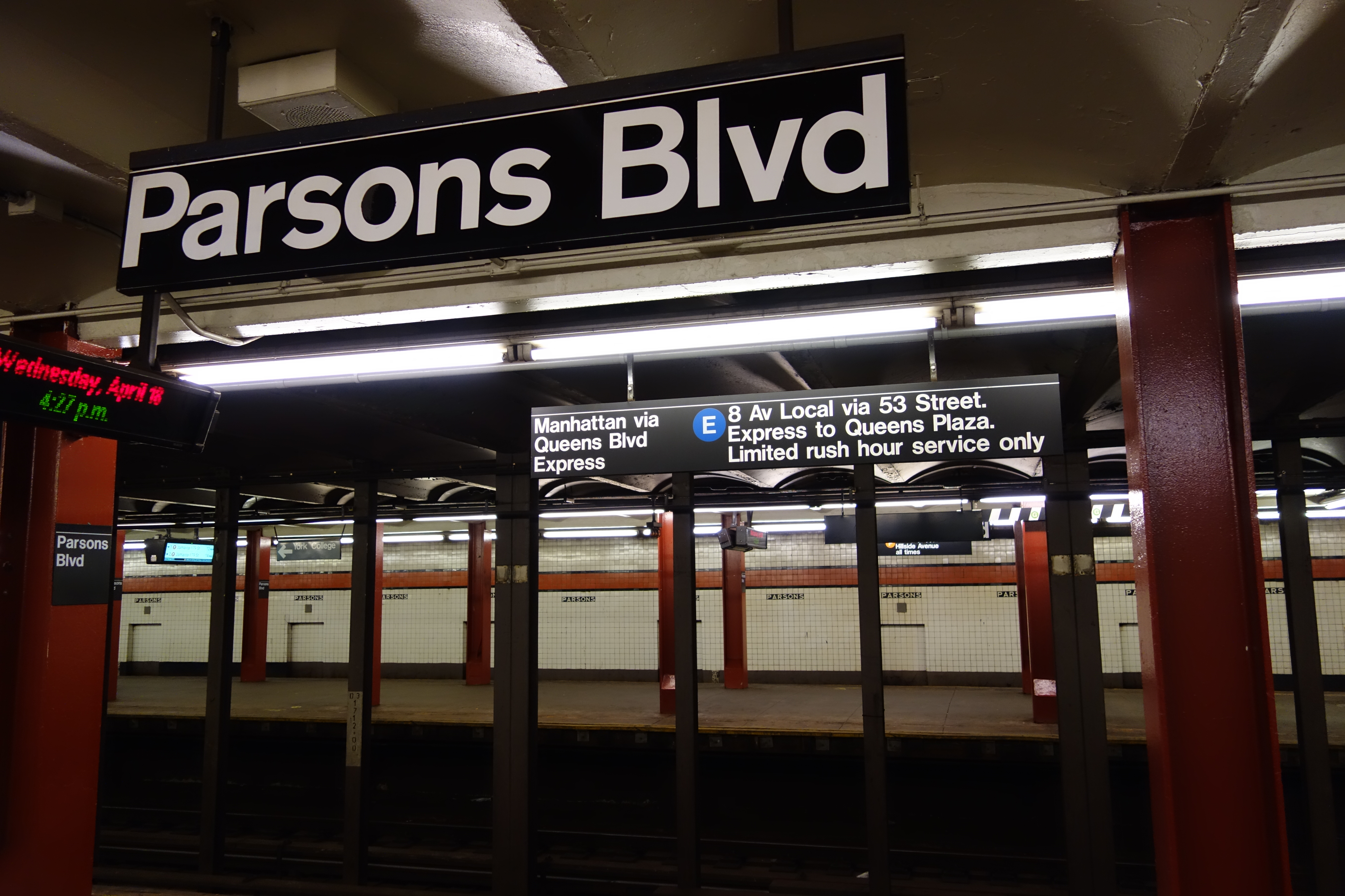 The Manhattan-bound platform of the Parsons Boulevard IND station under Hillside Avenue in Jamaica, Queens.